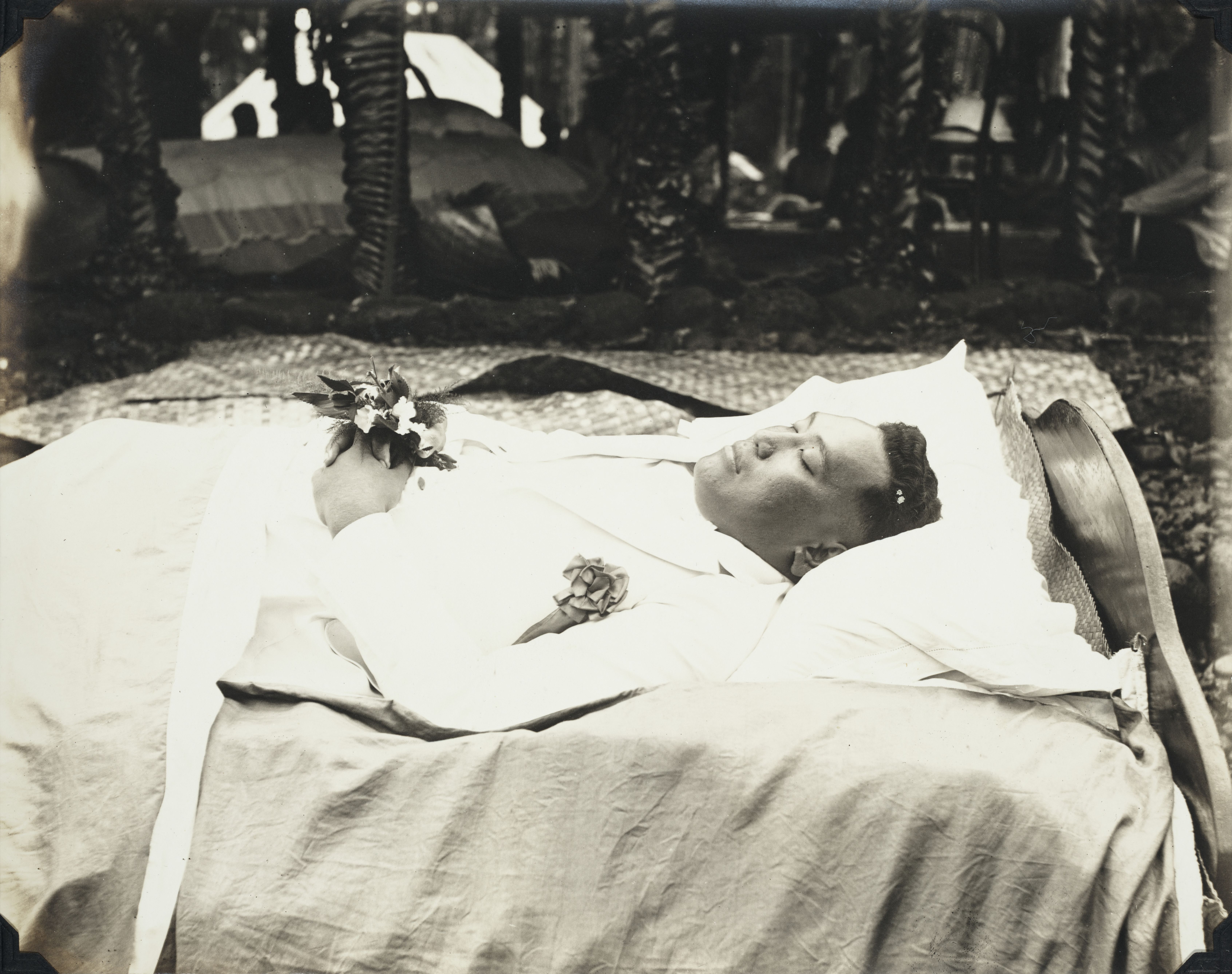 High chief Tupua Tamasese Lealofi III lying in state at Vaimoso, 1930. He was a leader of Samoa's Mau movement and was killed by New Zealand police during a march on 28 December, 1929. Gagana Samoa: Le maliu o Tupua Tamasese Lealofi III i Vaimoso, 1930. Le tama a aiga na faga e leoleo Niu Sila i le aso 29 Tisema, 1929 i le solo tete'e a le Mau i Apia.